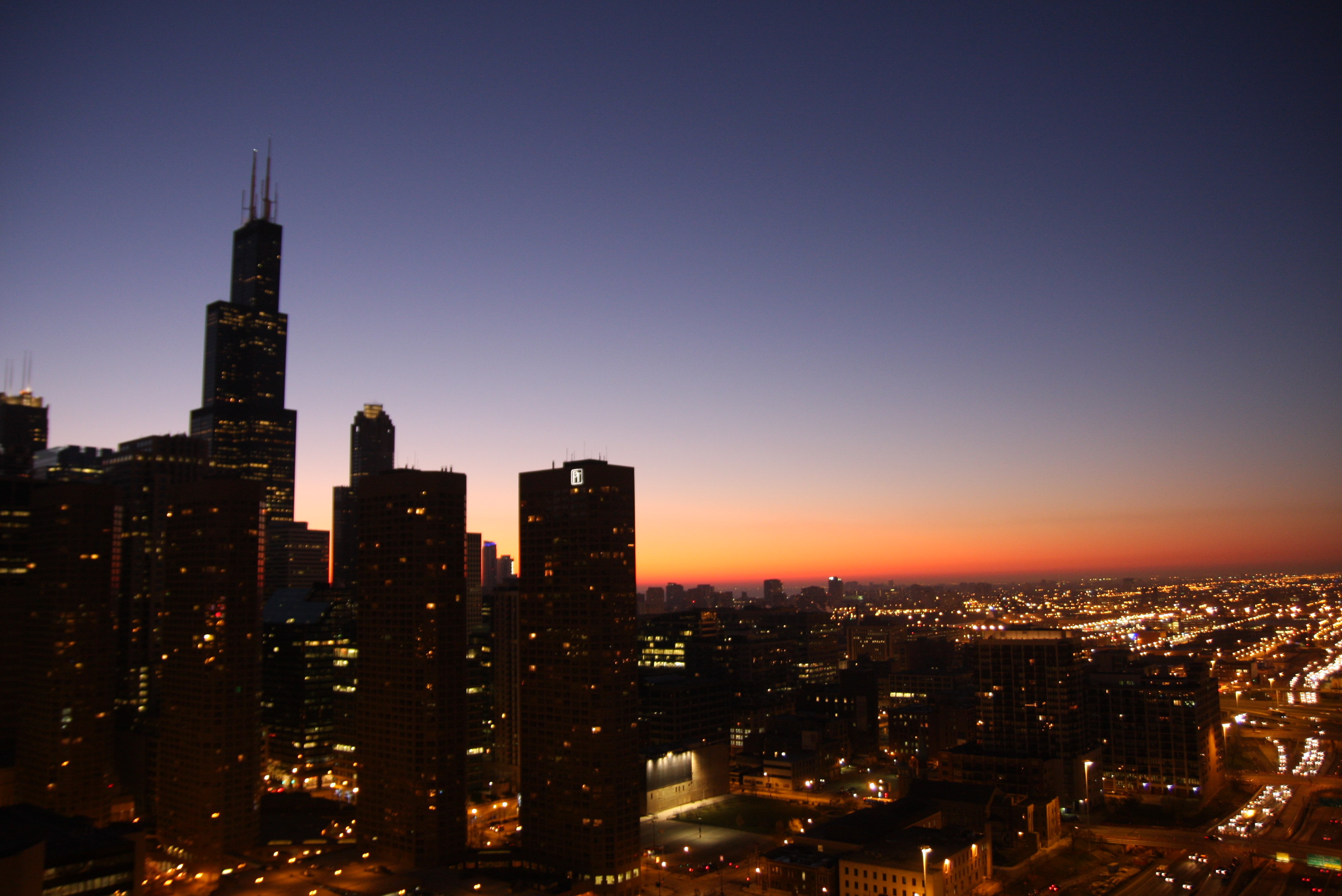 The following is the author's description of the photograph quoted directly from the photograph's Flickr page. "unedited, from balcony "